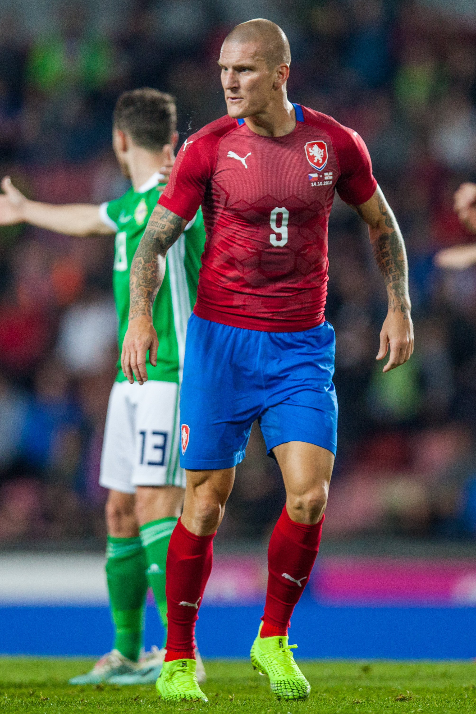 Zdeněk Ondrášek in an international friendly match between Czech Republic and Northern Ireland (2:3), Stadion Letná (Prague) 2019-10-14 The making of this work was supported by Wikimedia Austria. For other files made with the support of Wikimedia Austria, please see the category Supported by Wikimedia Österreich. Personality rights warningAlthough this work is freely licensed or in the public domain, the person(s) shown may have rights that legally restrict certain re-uses unless those depicted consent to such uses. In these cases, a model release or other evidence of consent could protect you from infringement claims.